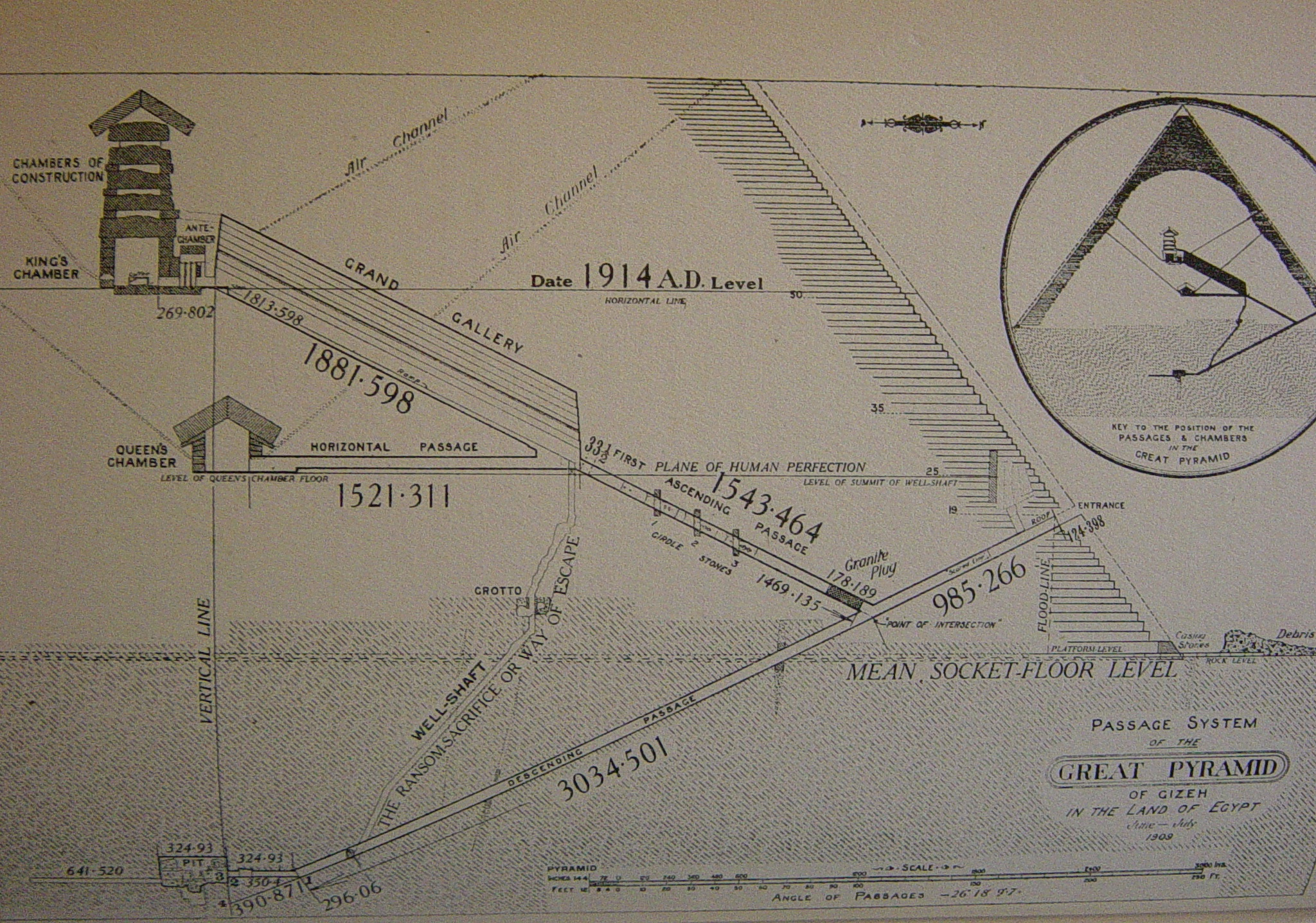 Pyramid chart from the 1911 Bible Students Convention Souvenir Report. At this time, the Bible Students in association with Pastor Charles Taze Russell believed that the Great Pyramid of Gizeh in Egypt confirmed biblical chronology. They believed the Great Pyramid confirmed their predictions for the year 1914. Pyramidology was rejected by the Bible Students in 1928 by J.F. Rutherford, Russell's successor, who later renamed the movement Jehovah's Witnesses.